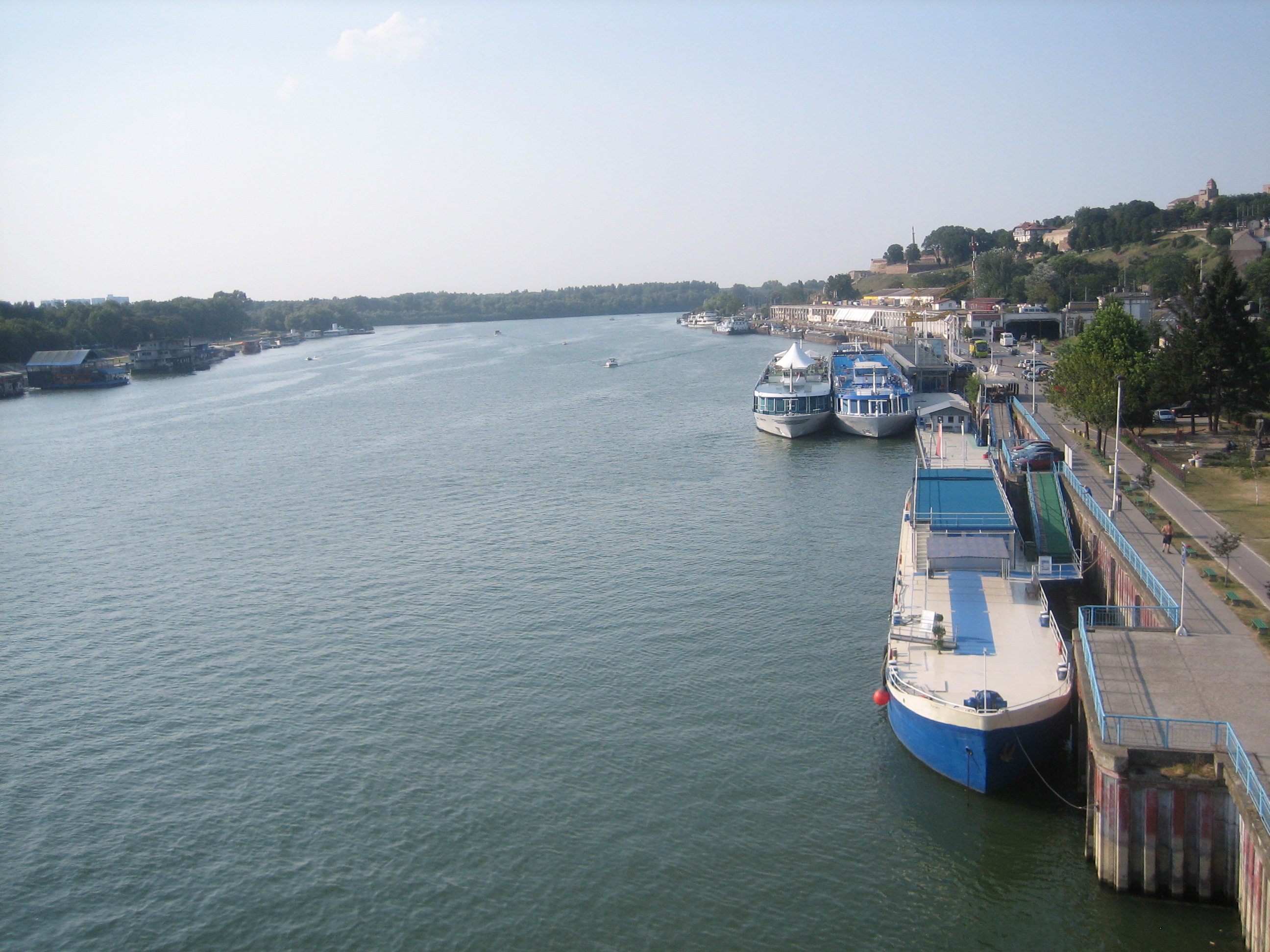 Sava River with Kalemegdan Fortress to the right, Belgrado, Serbia